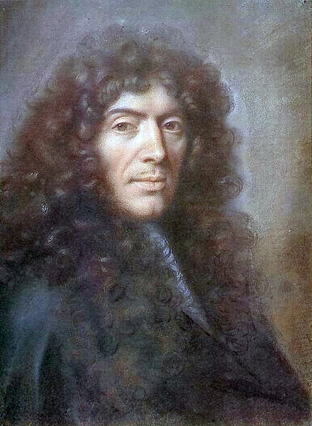 Portrait of the French engraver Israël Silvestre by Charles Le Brun